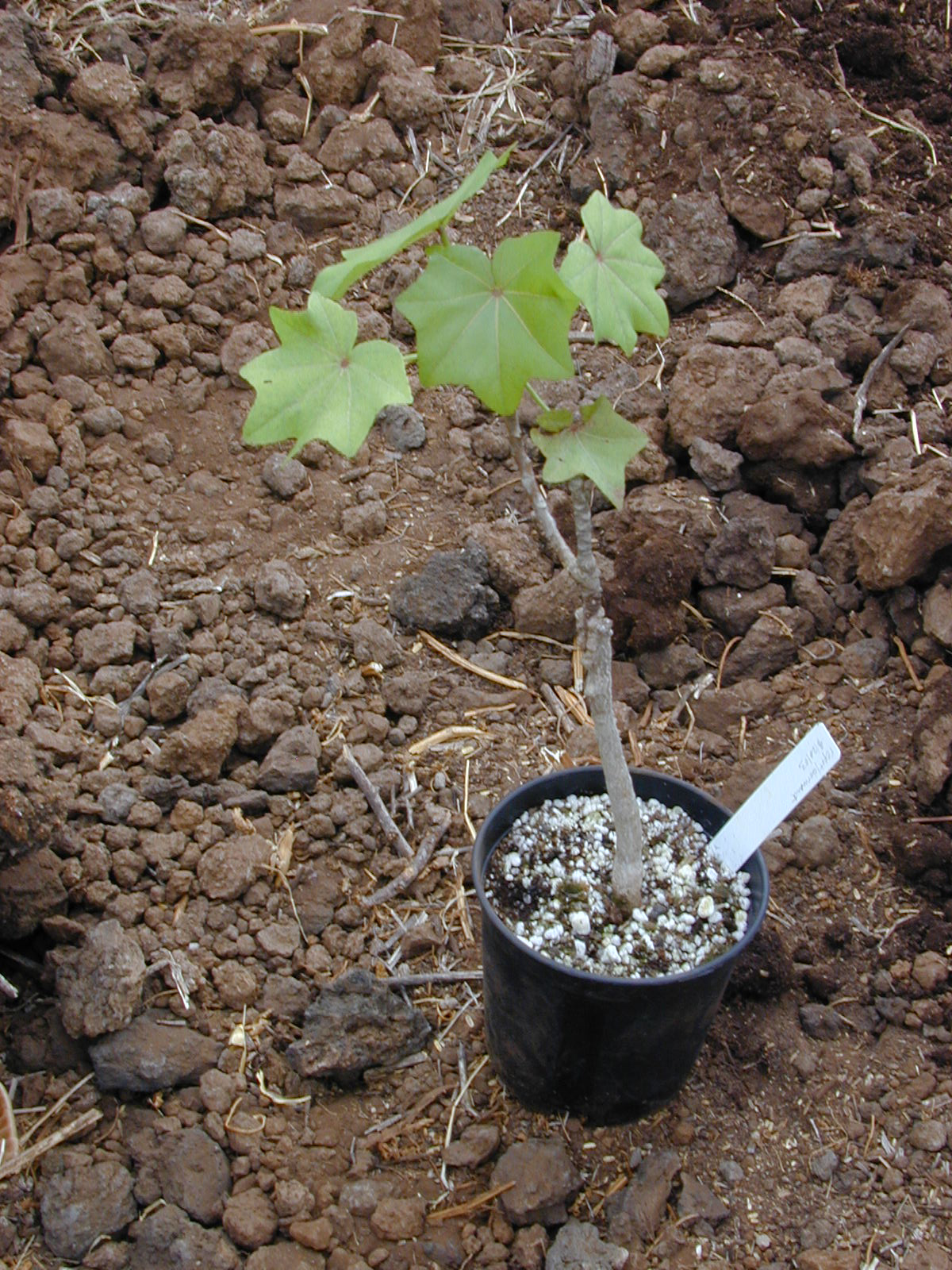 Kokia cookei (in pot). Location: Maui, Puu o Kali